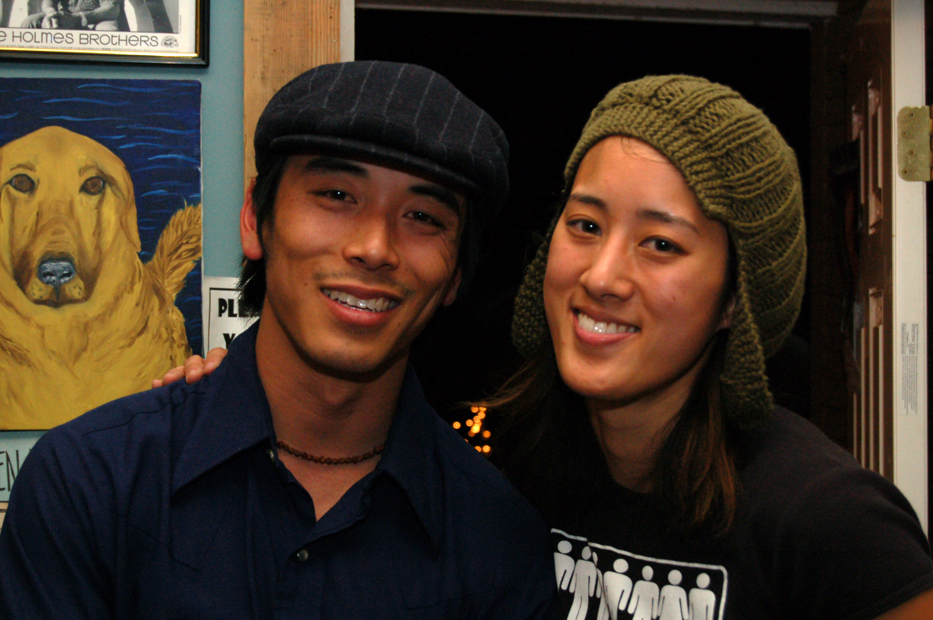 Vienna Teng and percussionist Alex Wong after two performances at the Portland, Oregon stop on Teng's Green Caravan tour. The performances took place in Portland's Mississippi Studios.